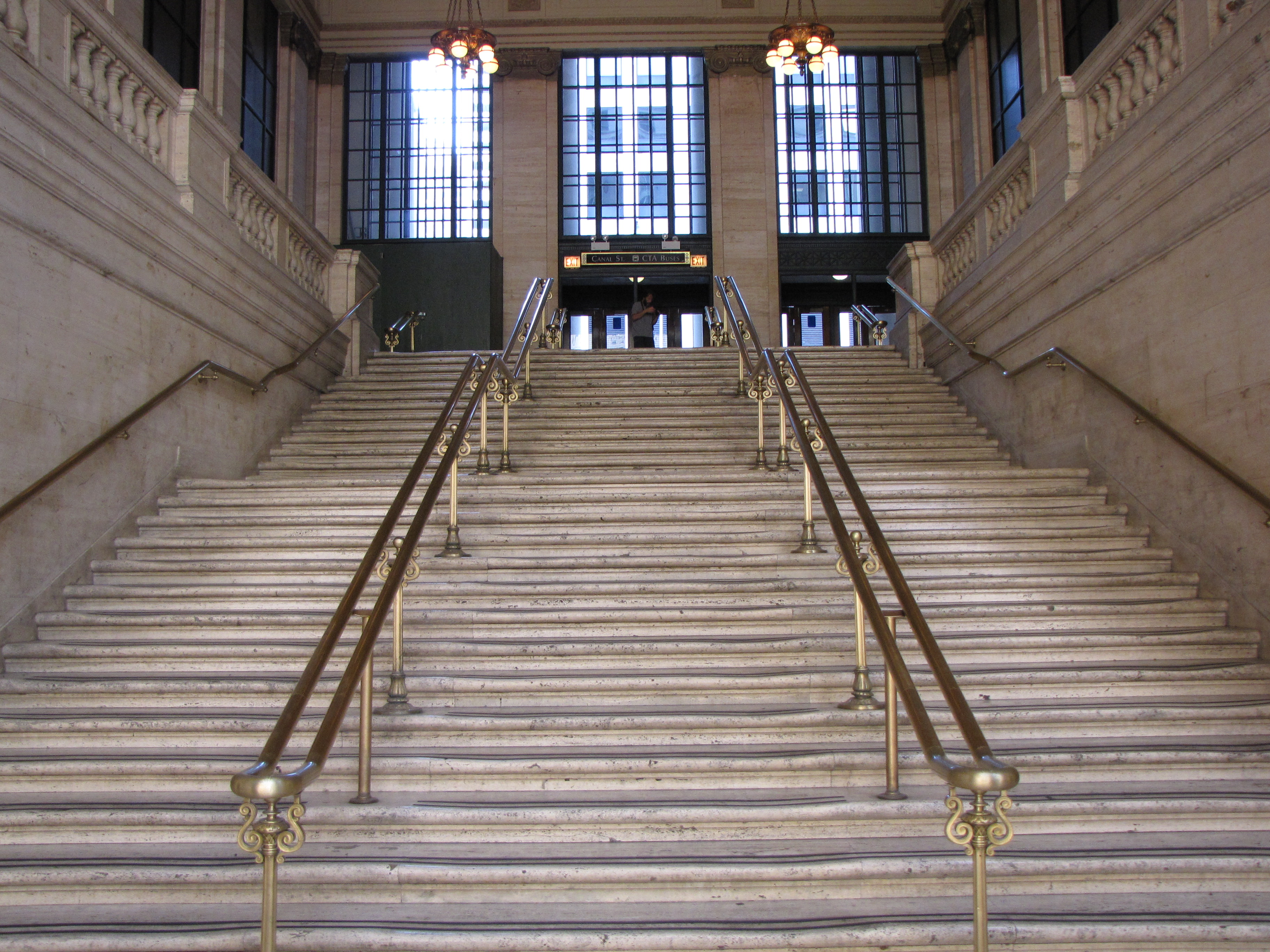 Stairs leading out of the main hall at Chicago Union Station.